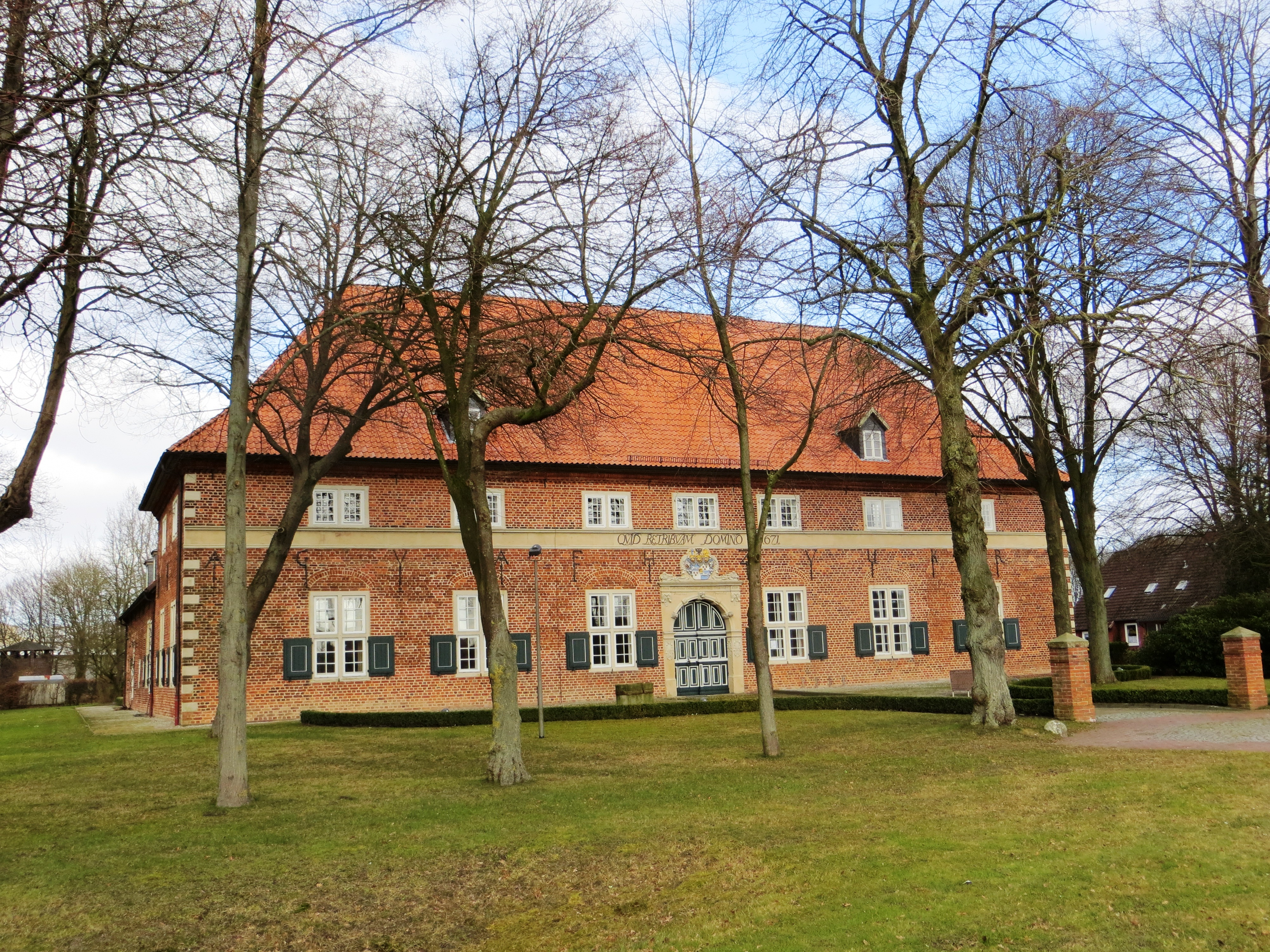 Orphanage in Varel